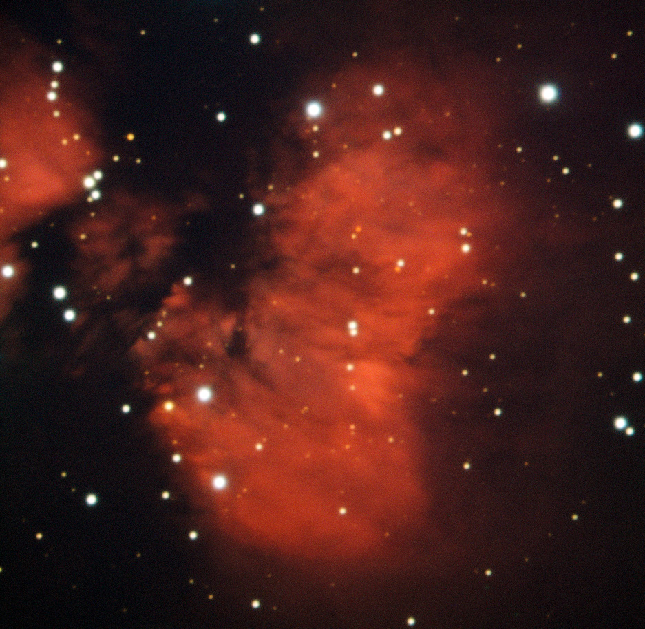 On Earth, cocoons are associated with new life. There are “cocoons” in space too, but, rather than protecting pupae as they transform into moths, they are the birthplaces of new stars. The red cloud seen in this image, taken with the EFOSC2 instrument on ESO’s New Technology Telescope, is a perfect example of one of these star-forming regions. This is a view of a cloud called RCW 88, which is located about ten thousand light-years away and is about nine light-years across. It is not made of silk, like a moth’s cocoon, but of glowing hydrogen gas that surrounds the recently formed stars. The new stars form from clouds of this hydrogen gas as they collapse under their own gravity. Some of the more developed stars, already shining brightly, can even be seen peering through the cloud. These hot young stars are very energetic and emit large amounts of ultraviolet radiation, which strips the electrons from the hydrogen atoms in the cloud, leaving the positively charged nuclei — protons. As the electrons are recaptured by the protons, they can emit H-alpha light, which has a characteristic red glow. Observing the sky through an H-alpha filter is the easiest way for astronomers to find these star-forming regions. A dedicated H-alpha filter was one of the four filters used to produce this image.